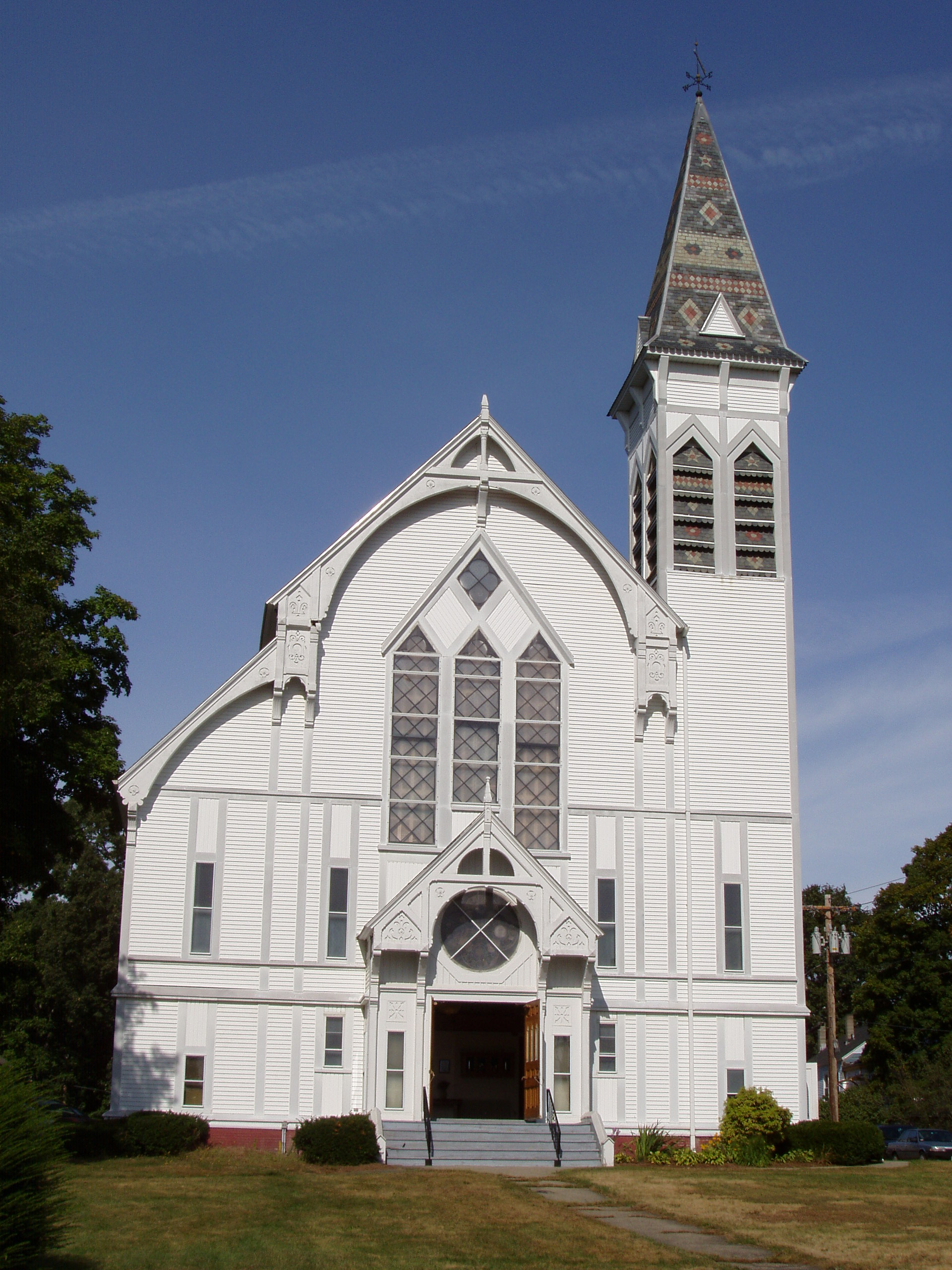 First Congregational Church - Georgetown, Massachusetts. Photograph taken by me, September 2005